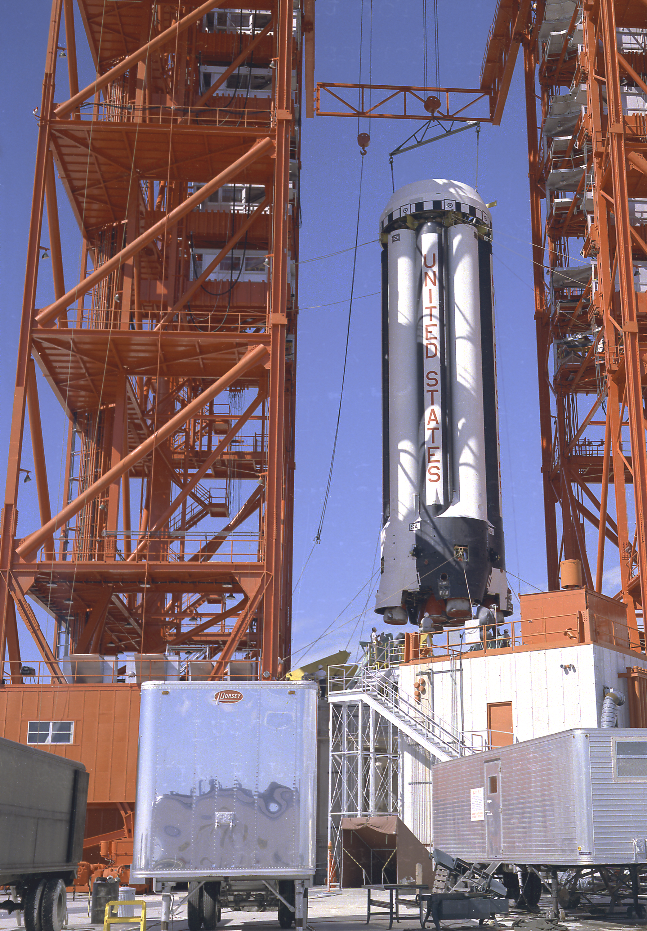 The Saturn I S-I stage for the SA-1 mission was being eased into place and erected on the launch pad at Cape Canaveral, Florida.